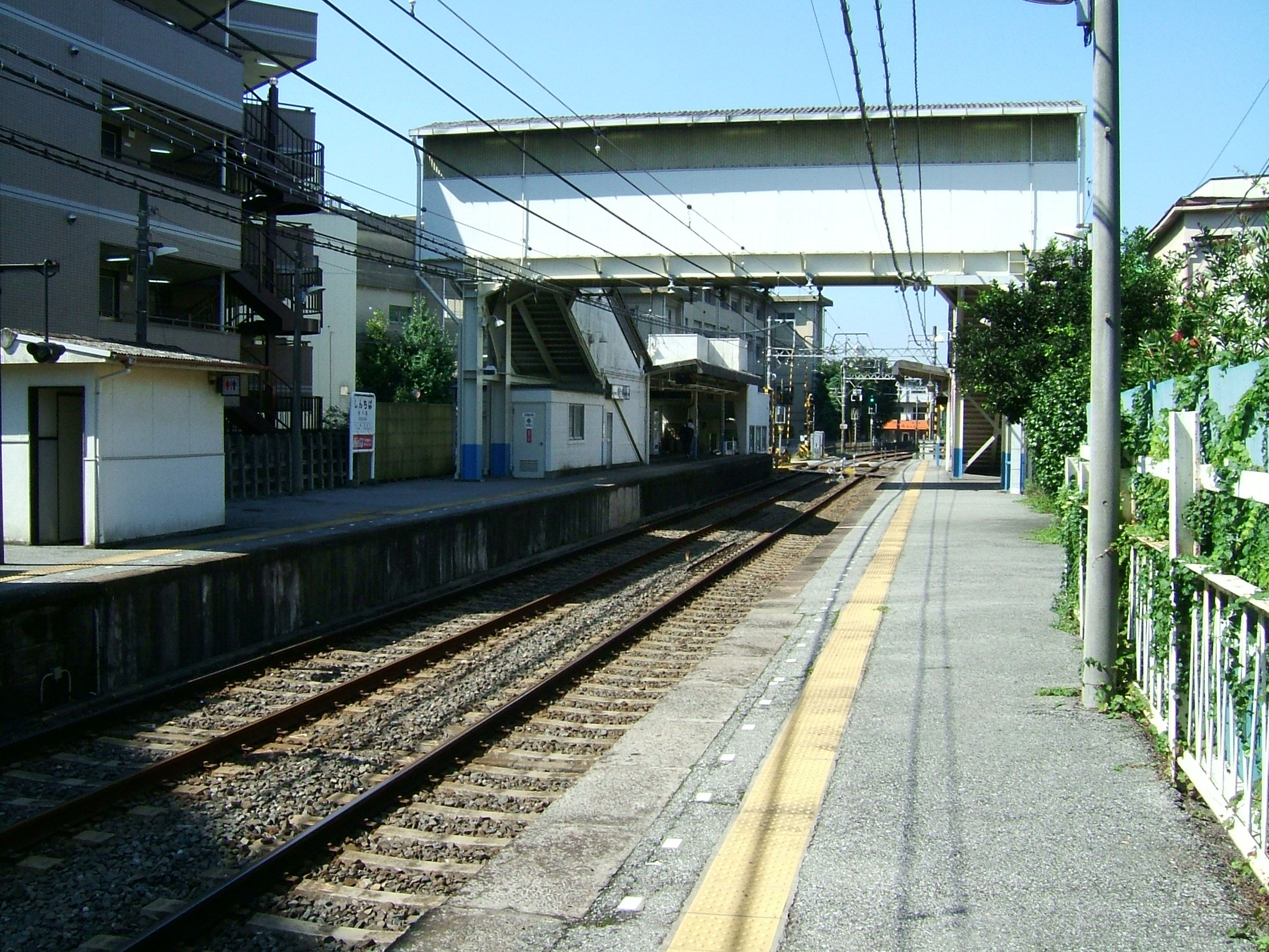 Shin-Chiba Station platform(Keisei Chiba Line)